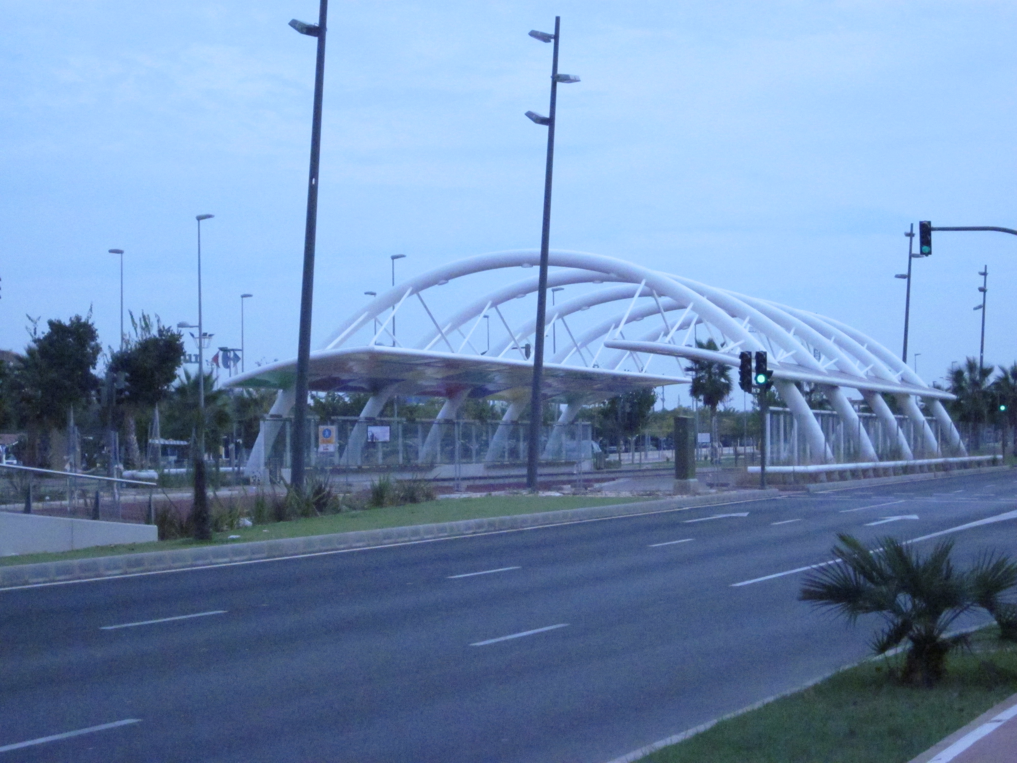 Future stop of the TRAM at Mar Avenue of castellón de la Plana, Spain.